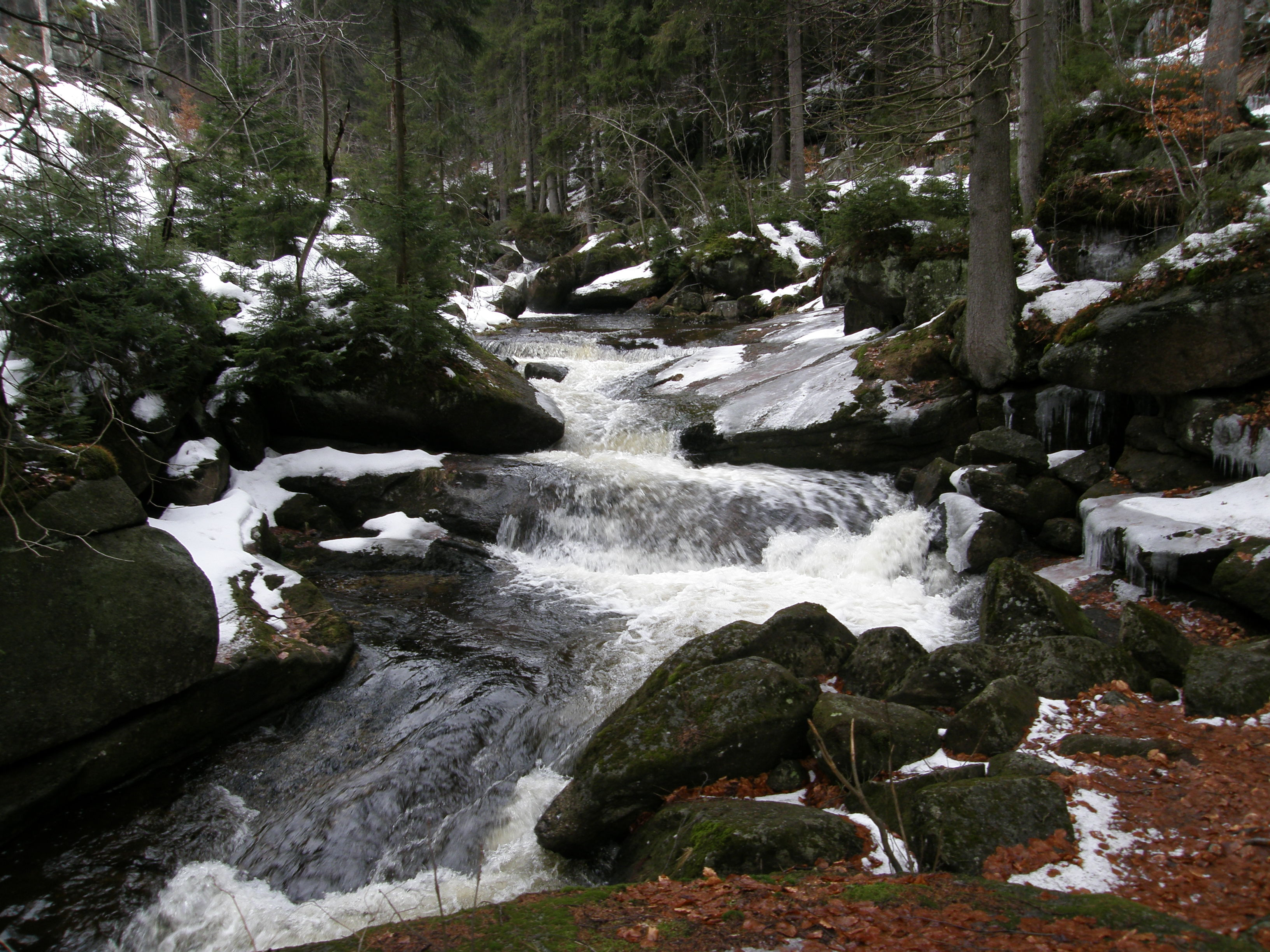 Natural monument Černá Desná in Jablonec nad Nisou District, Czech Republic.